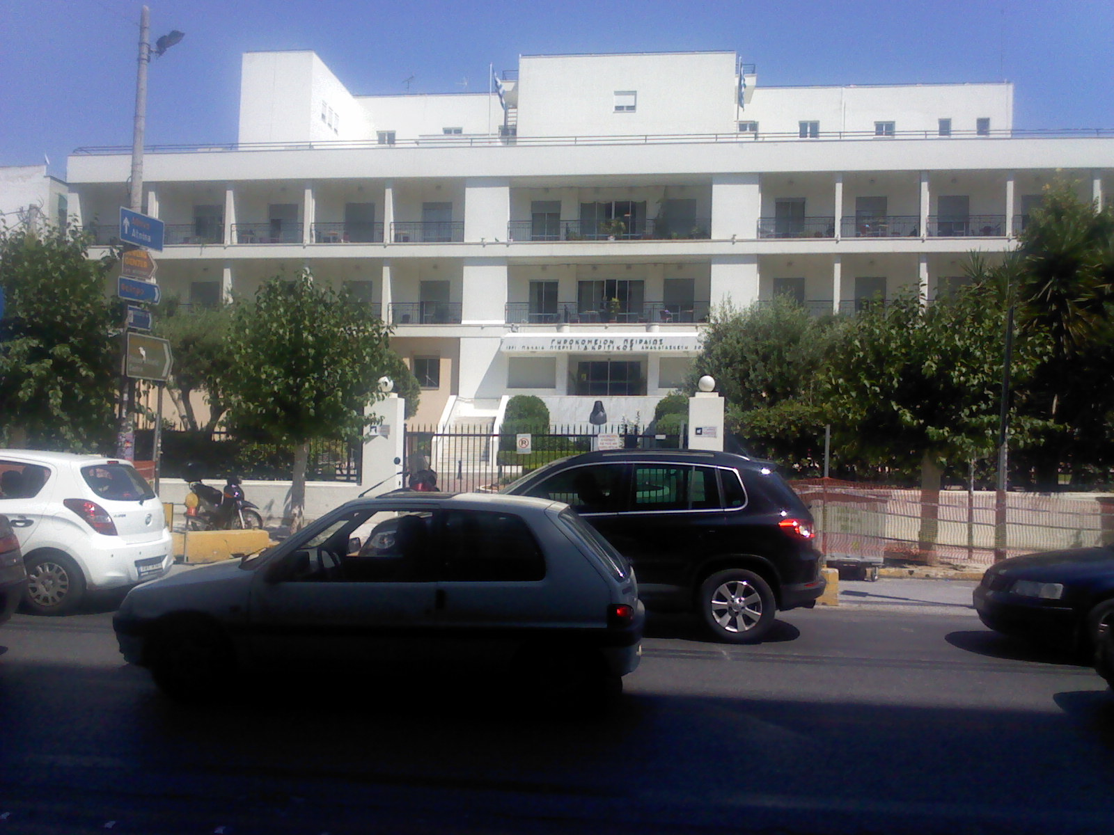 Nursing Home of Pireas